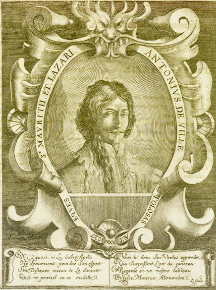 Antoine de Ville: portrait.